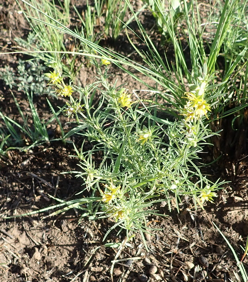 Roderick Hill, Bayswater, Bloemfontein This media file is part of an observation on iNaturalist: tag does not indicate the copyright status of the attached work. A normal copyright tag is still required. See Commons:Licensing.